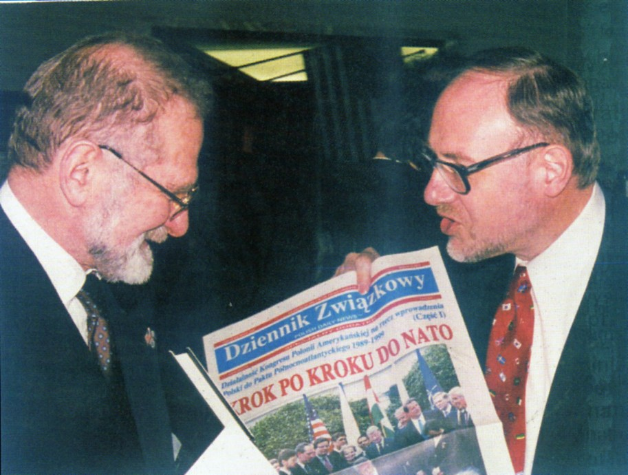 Foreign Minister Geremek (L) receives special edition of Cicago's "Dziennik Zwiazkowy/Polish Daily News" of Poland's steps taken to NATO from Lech Kuczynski, Ntln Exec. Dir. of the Polish National Congress.